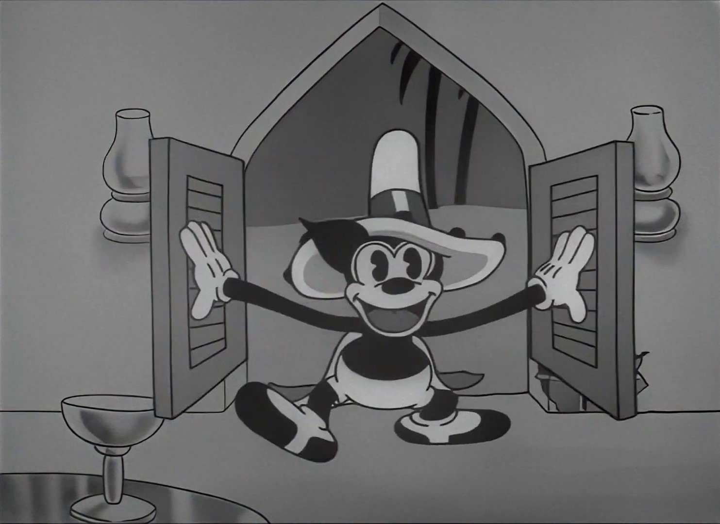 Screen shot from the first Merrie Melodies short, "Lady, Play Your Mandolin!"